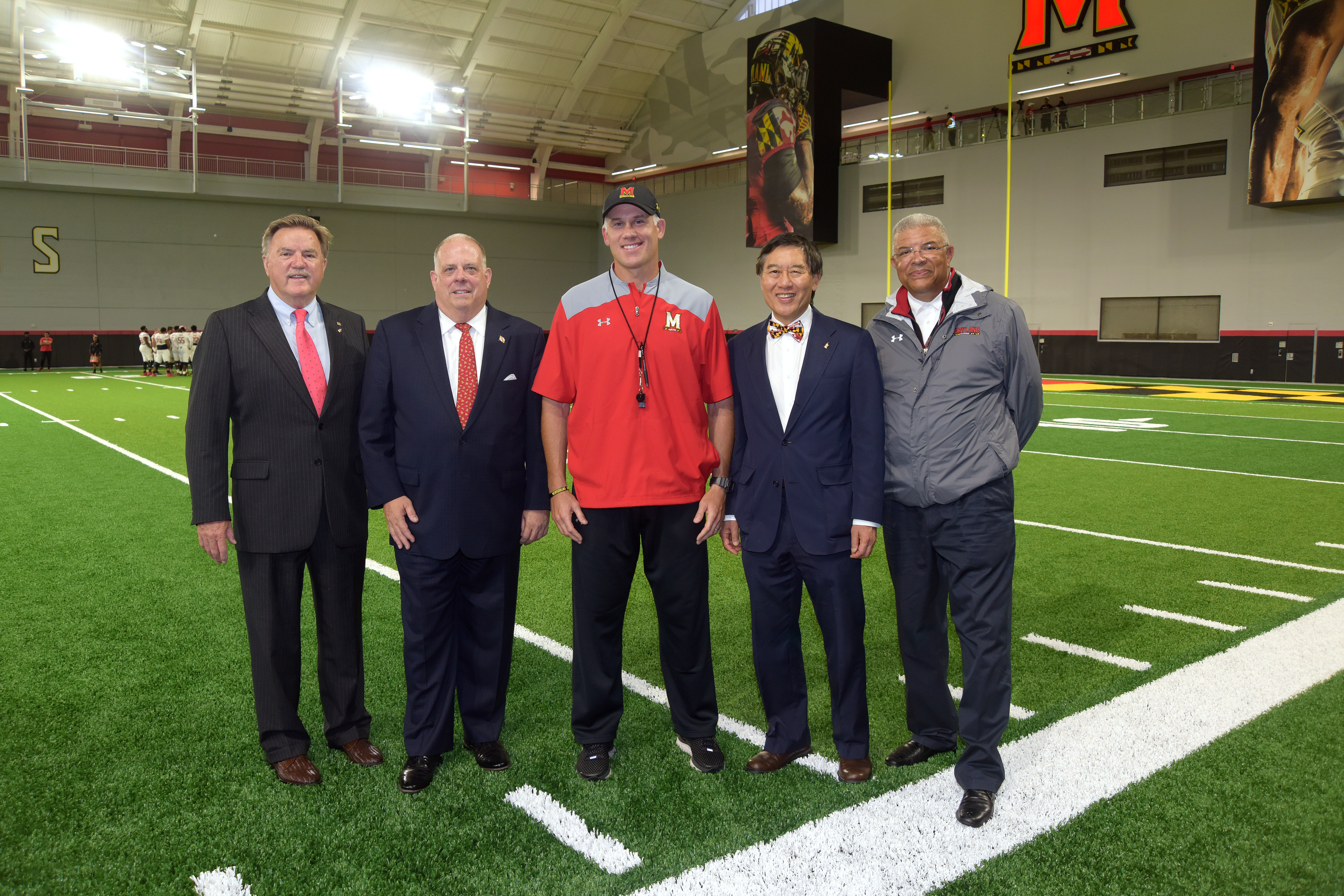 Governor Hogan visits University of Maryland Football Team by Tom Nappi at College Park, Maryland